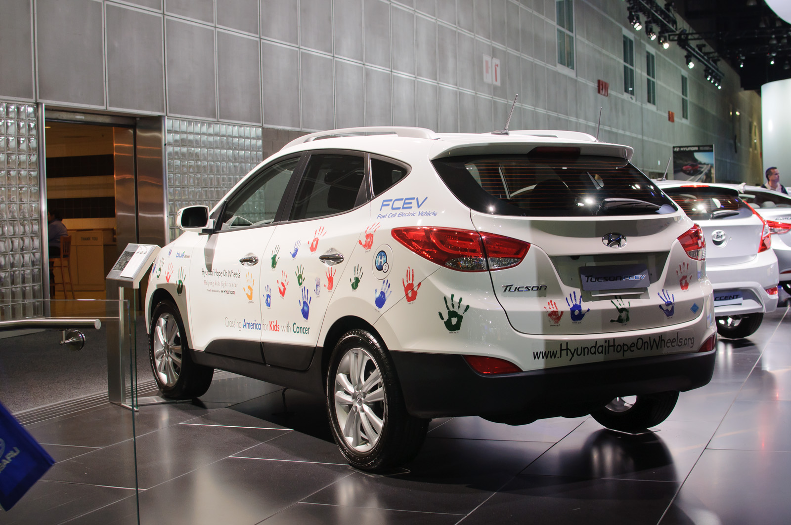 This prototype fuel cell Tucson, built to Korean domestic market specifications, was used by the Hyundai-Kia research team for a drive across the US. It also was used as part of a promotion campaign for Hyundai Motor America's Hope on Wheels charity, which helps children suffering from cancer. Hyundai has renamed the second-generation Tucson to ix35 in most markets, in keeping with its new alphanumeric European-market numbering, but for the US and Korean domestic markets, the Tucson name is retained. Seen at Los Angeles International Auto Show, 2011.